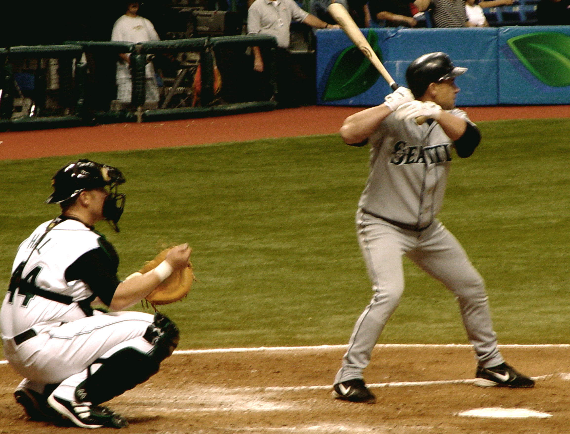 Bret Boone at bat against the Tampa Bay Devil Rays, May 28, 2005. Photo by Googie Man 23:03, 13 June 2005 . . Googie man . . 2309×1758 (896 KB)